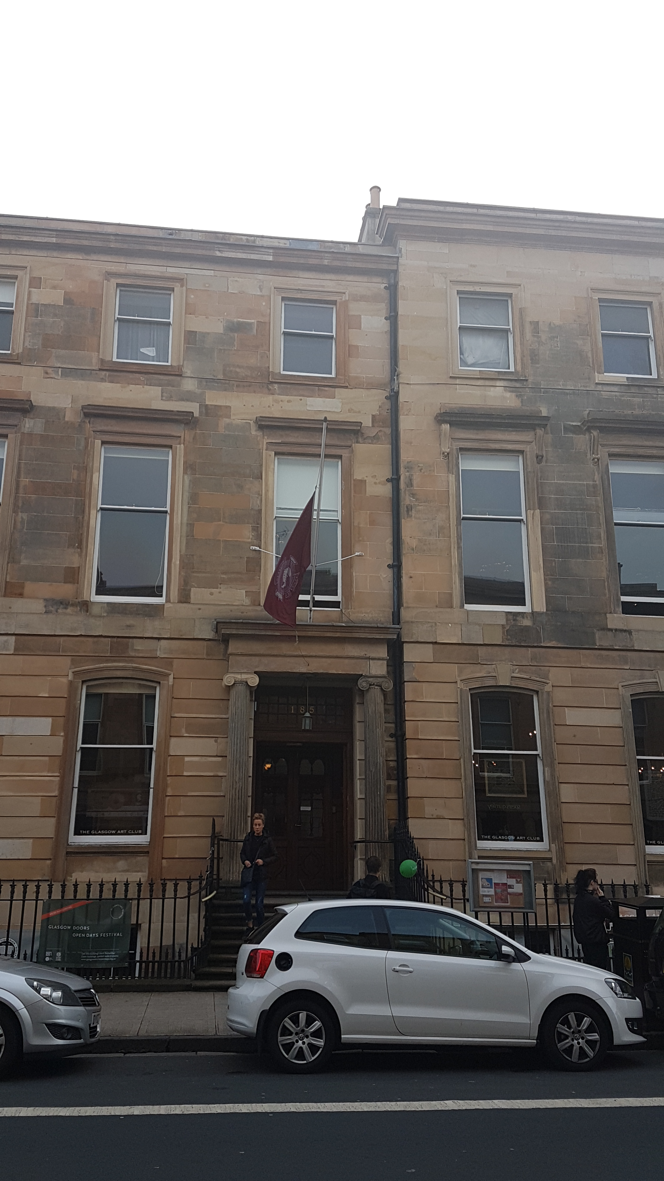 The Glasgow Art Club, 185 Bath Street, Glasgow. Founded in 1867 by William Dennistoun. Professional artists started joining in 1870s and exhibitions were held. It moved to 185 Bath Street premises in 1893. Wikidata has entry Q17568115 with data related to this item.